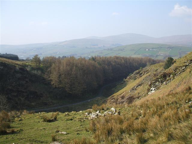 Barnes Gap, The Sperrins Looking northwards.